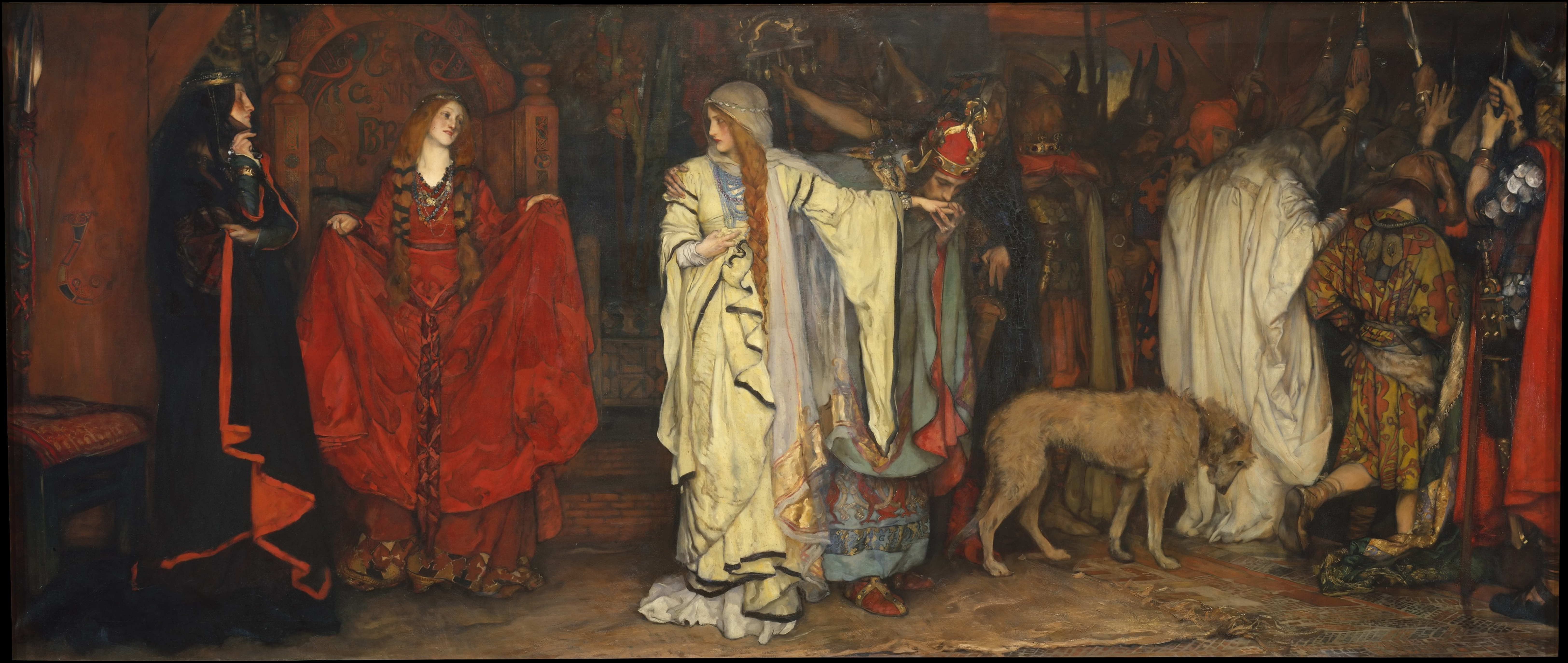 Edwin Austin Abbey. King Lear, Act I, Scene I (Cordelia's Farewell) The Metropolitan Museum of Art. Dates: 1897-1898 Dimensions: Height: 137.8 cm (54.25 in.), Width: 323.2 cm (127.24 in.) Medium: Painting - oil on canvas